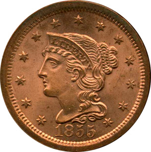 1855 Cent, Braided Hair, Obverse